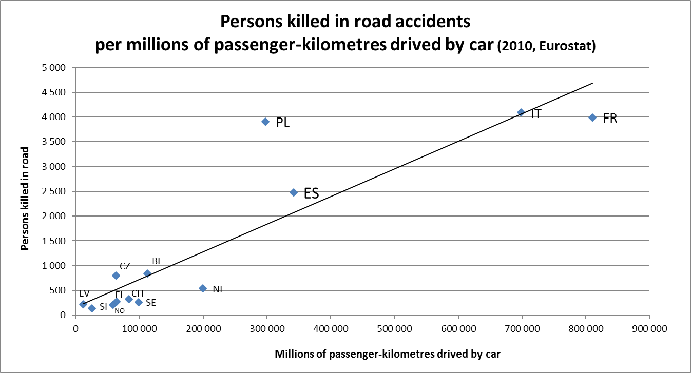 Persons killed in road accidents per millions of passenger-kilometres driven by car